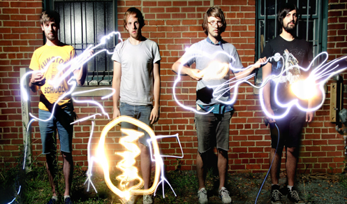 Maps and Atlases